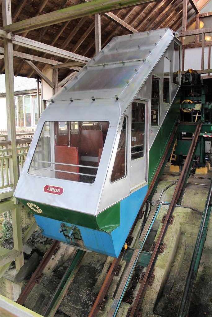 Carriage "Annie" at Centre for Alternative technology Railway